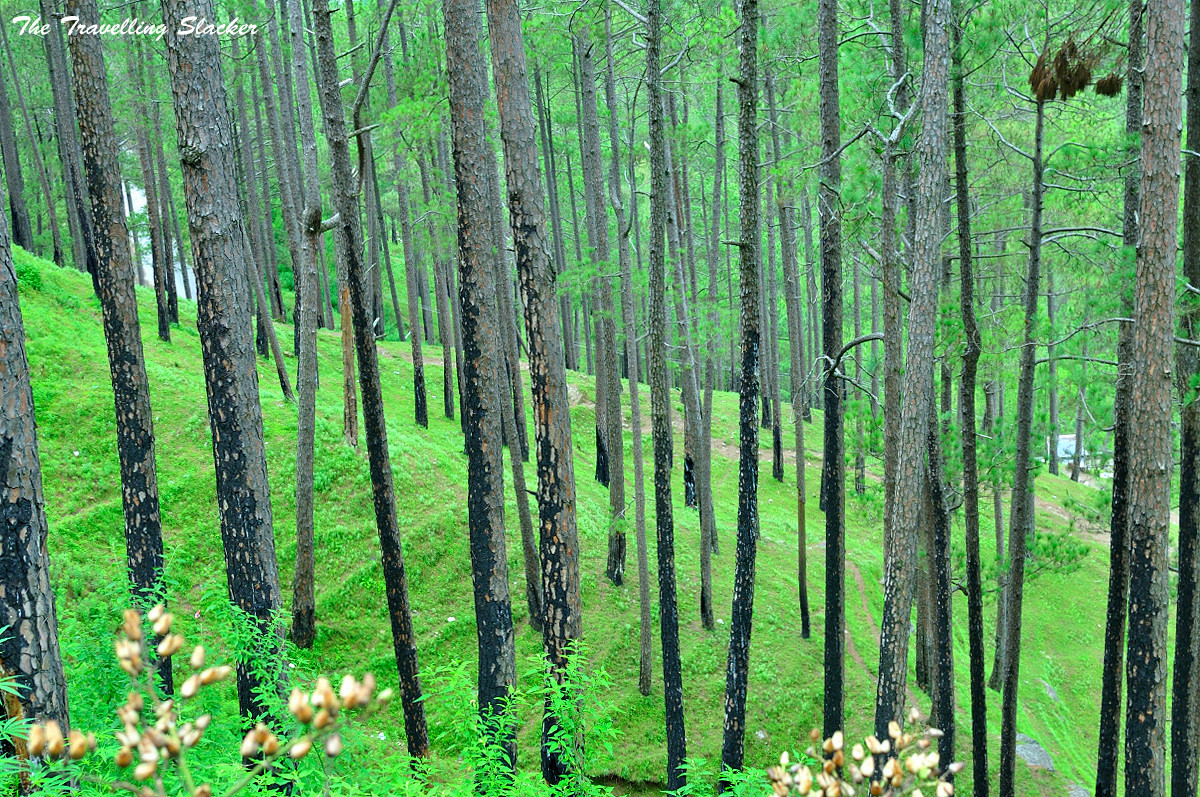 Forests, Nature, Geography, Valley, Scenery of Uttarakhand India